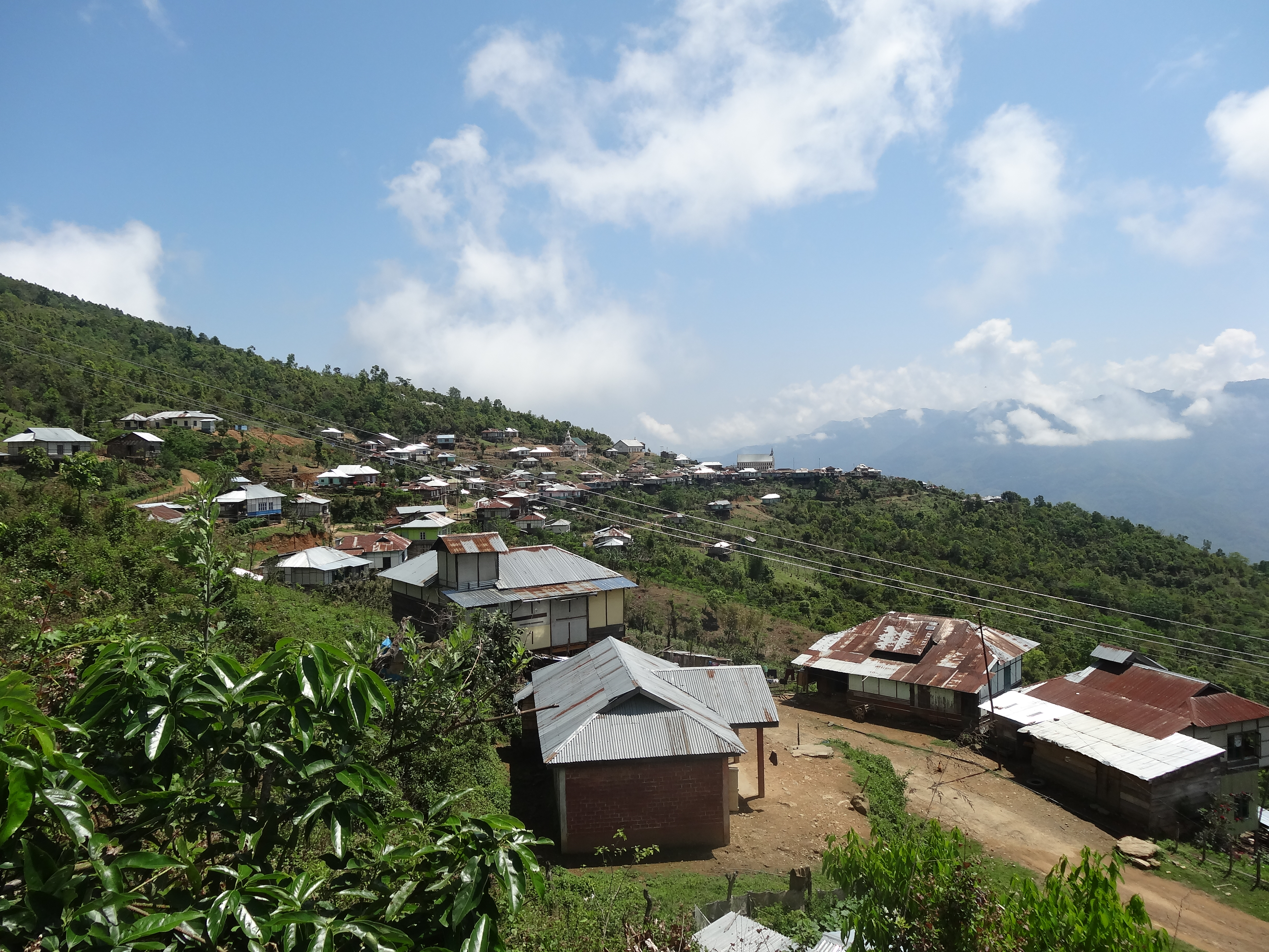 Viewed from south